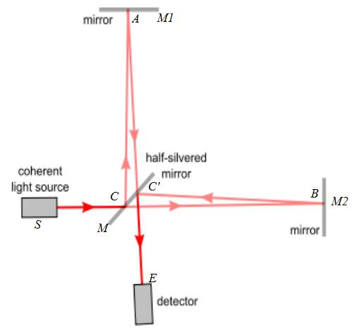 Michelson Interferometer With Appropriate Labels